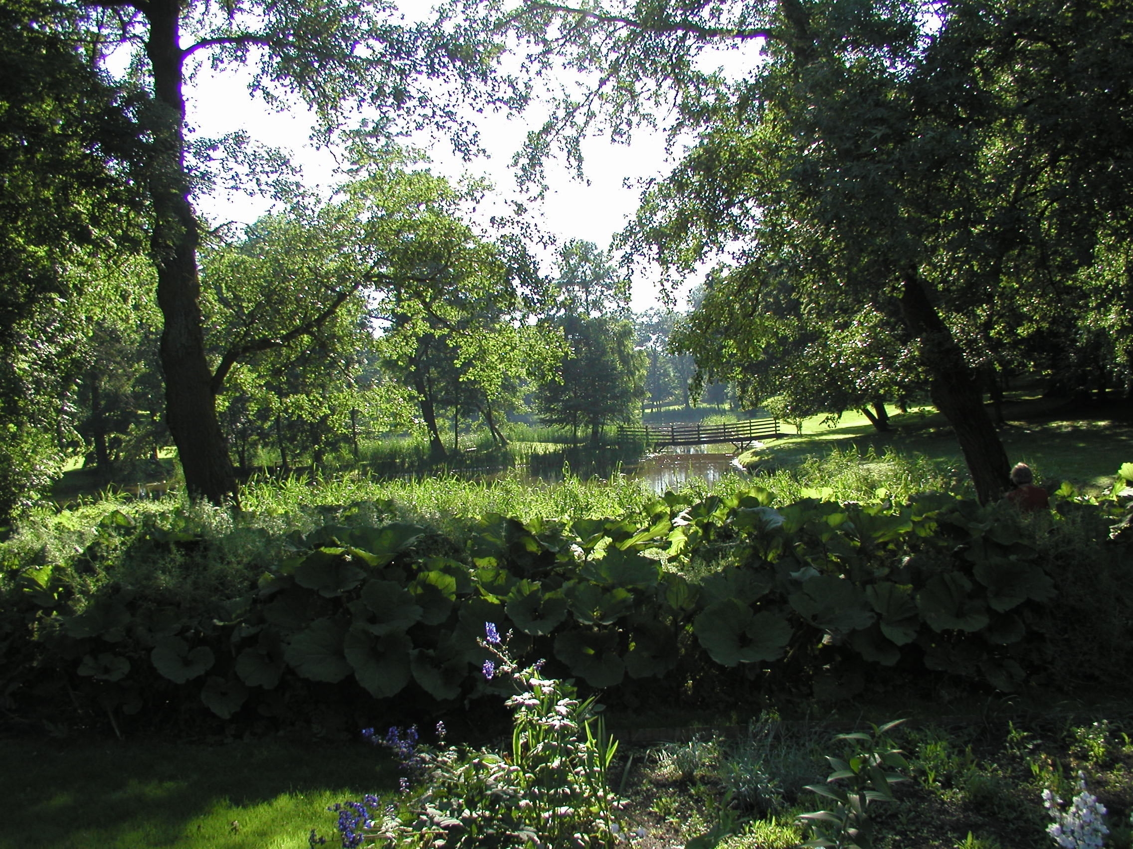 Park in Zakrzewo (Poland)